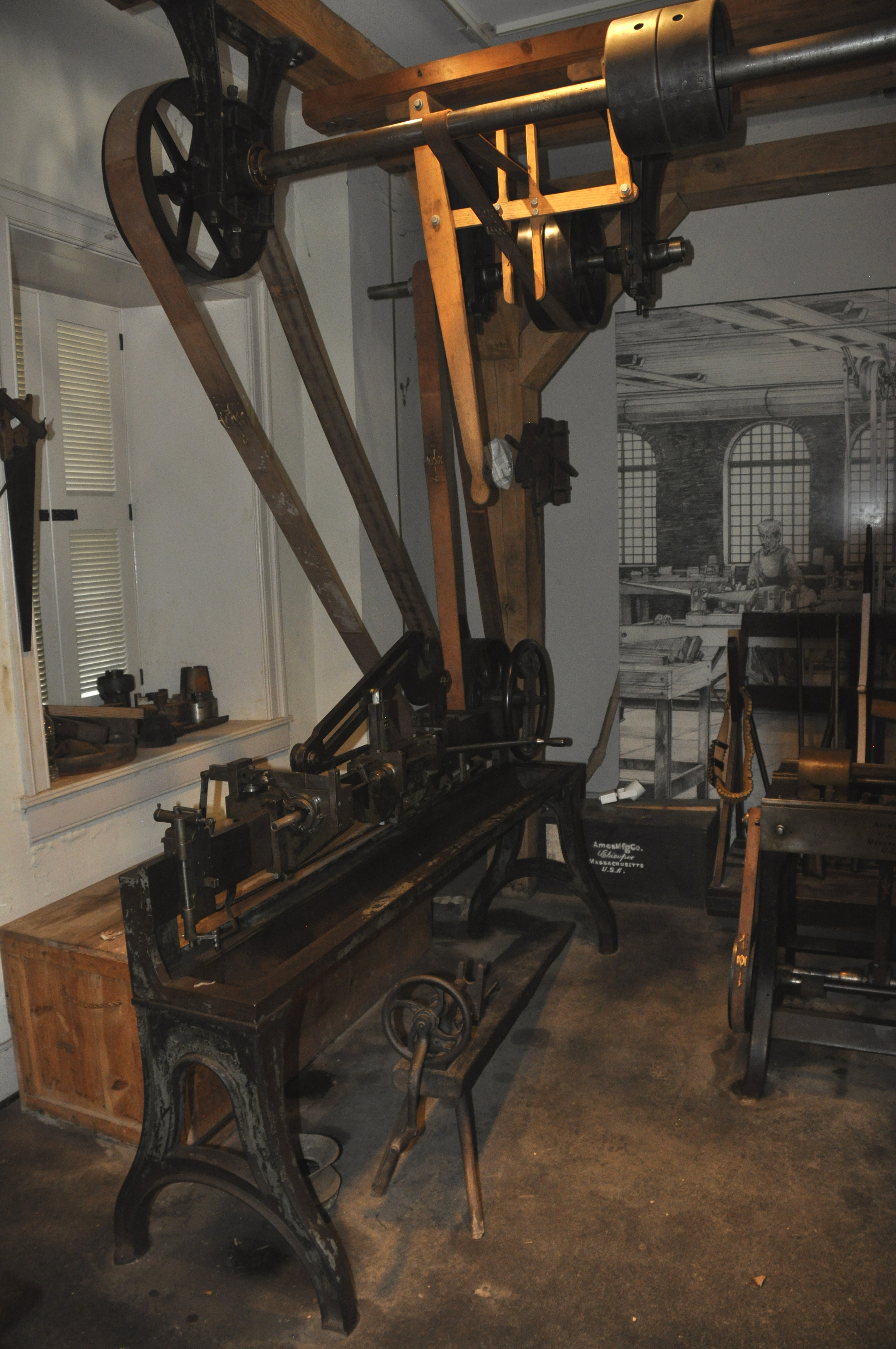 Harpers Ferry Armory gunsmith shop had machines for production of the lock, the stock and the barrel. The machines are from 1850's and are all powered by water. The power is transmitted to the machine by a set of pulleys and leather belts. This machine is a Rifling machine used for cutting groves into inside of a gun barrel which made rifle bullet spin and have greater accuracy.